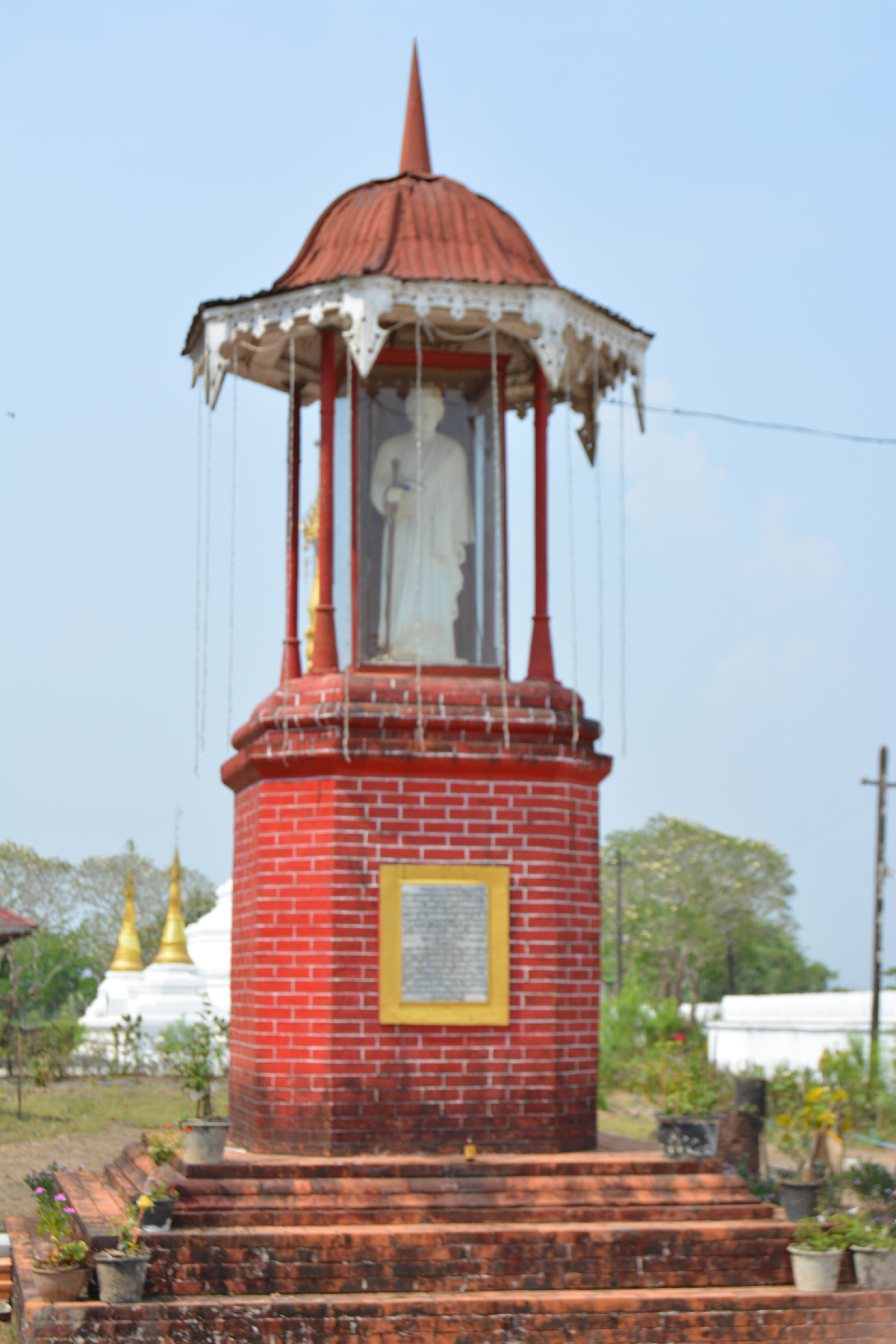 Nai Oak statue